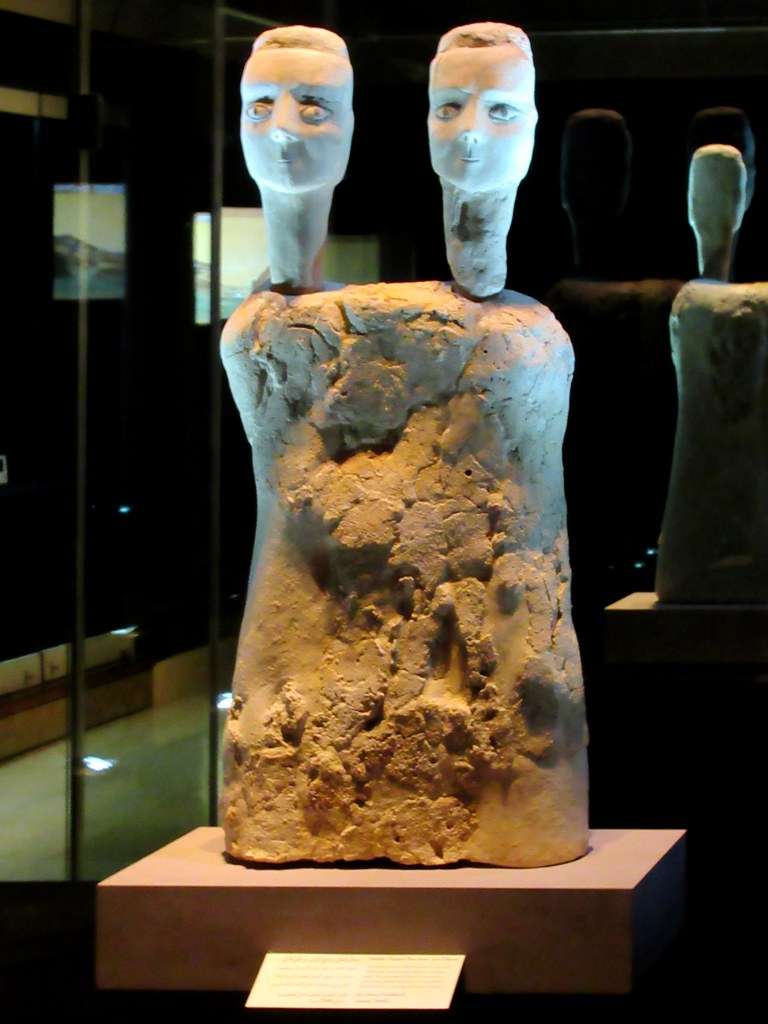 This double-headed bust from Ayn Ghazal on display in the Jordan Museum at Amman was made 9,500 years ago. Dating from the pre-pottery Neolithic B period, it is considered one of the oldest large-scale statues in the world.